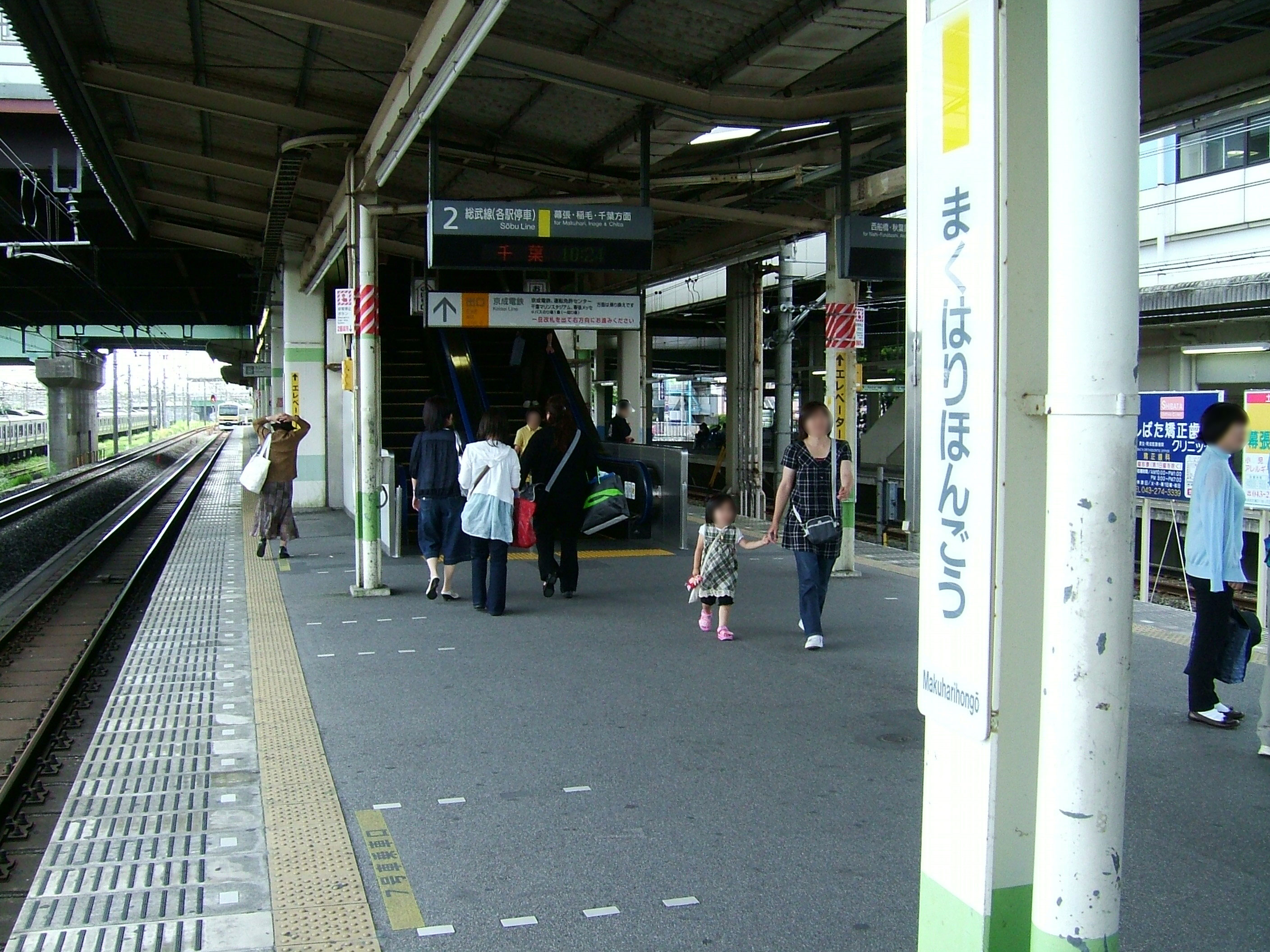 The platform at Makuhari-Hongō Station on the East Japan Railway Sōbu Main Line